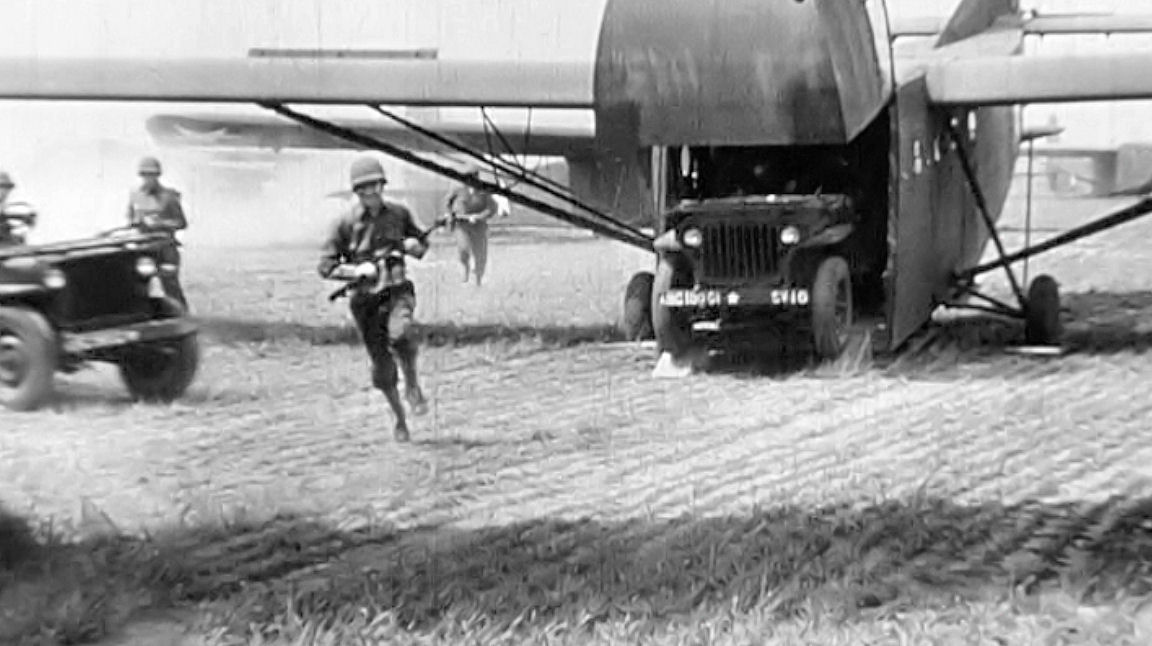 Laurinburg-Maxton Army Air Base Jeep Coming Out Of Front Cargo Door